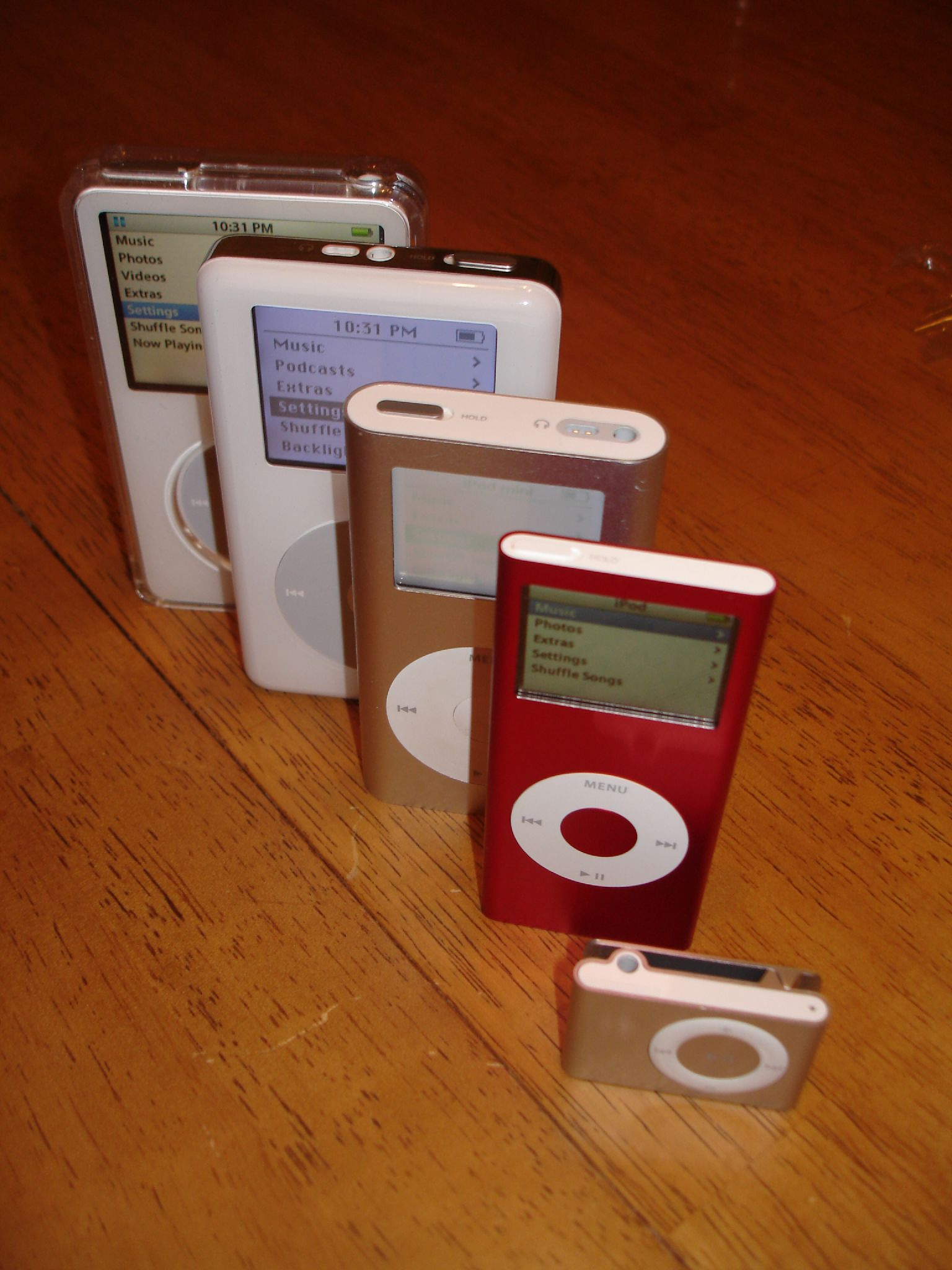 A stack of the iPods I now own... included are the 1Gb iPod shuffle (2nd Gen), iPod nano Product(RED) 4Gb (2nd Gen), iPod mini 4Gb, iPod 20Gb (4th Gen), and iPod video 80Gb (5.5 Gen).